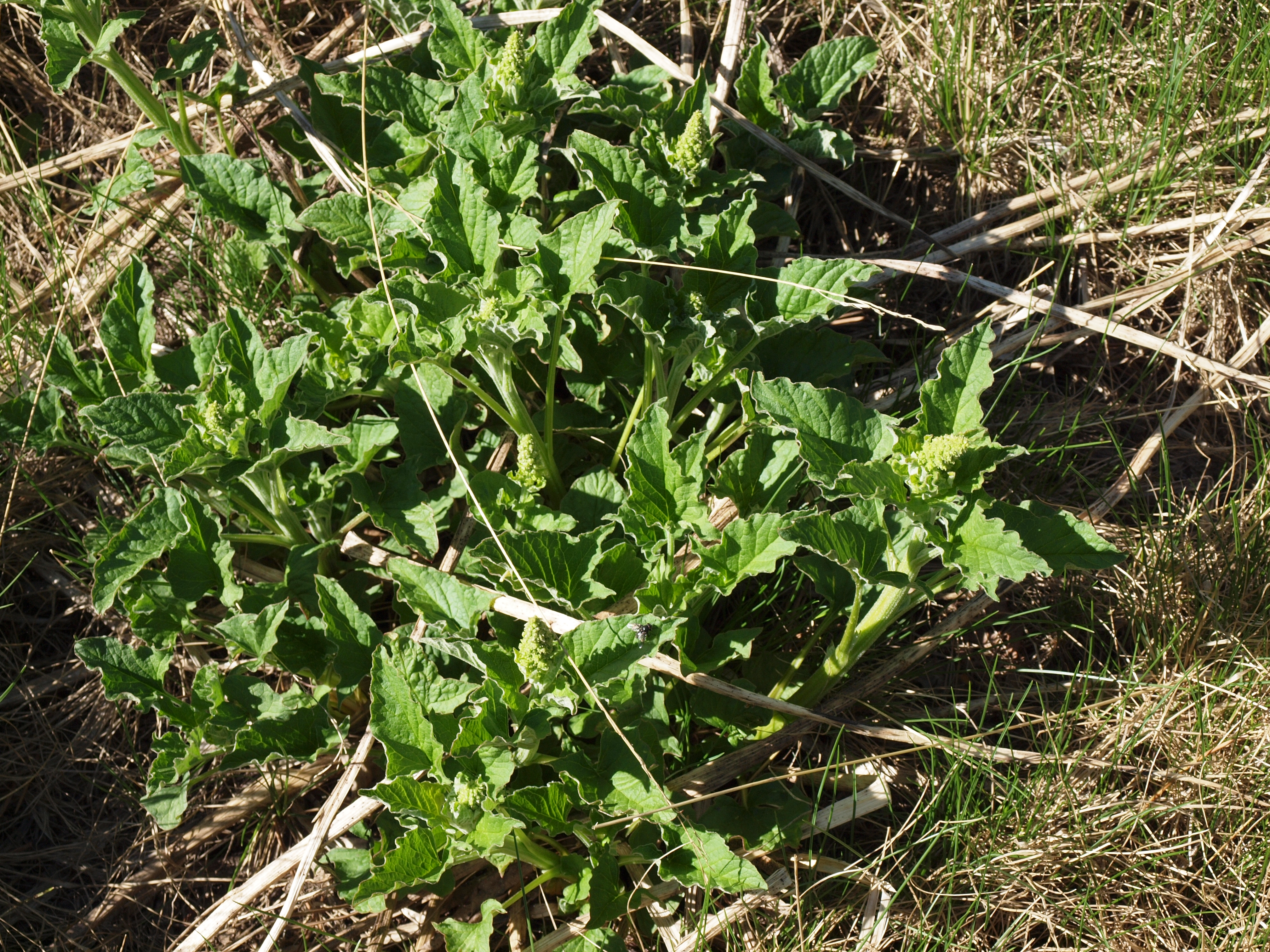 Chenopodium bonus henricus from an oromediterranean ouvala on Mt Orjen